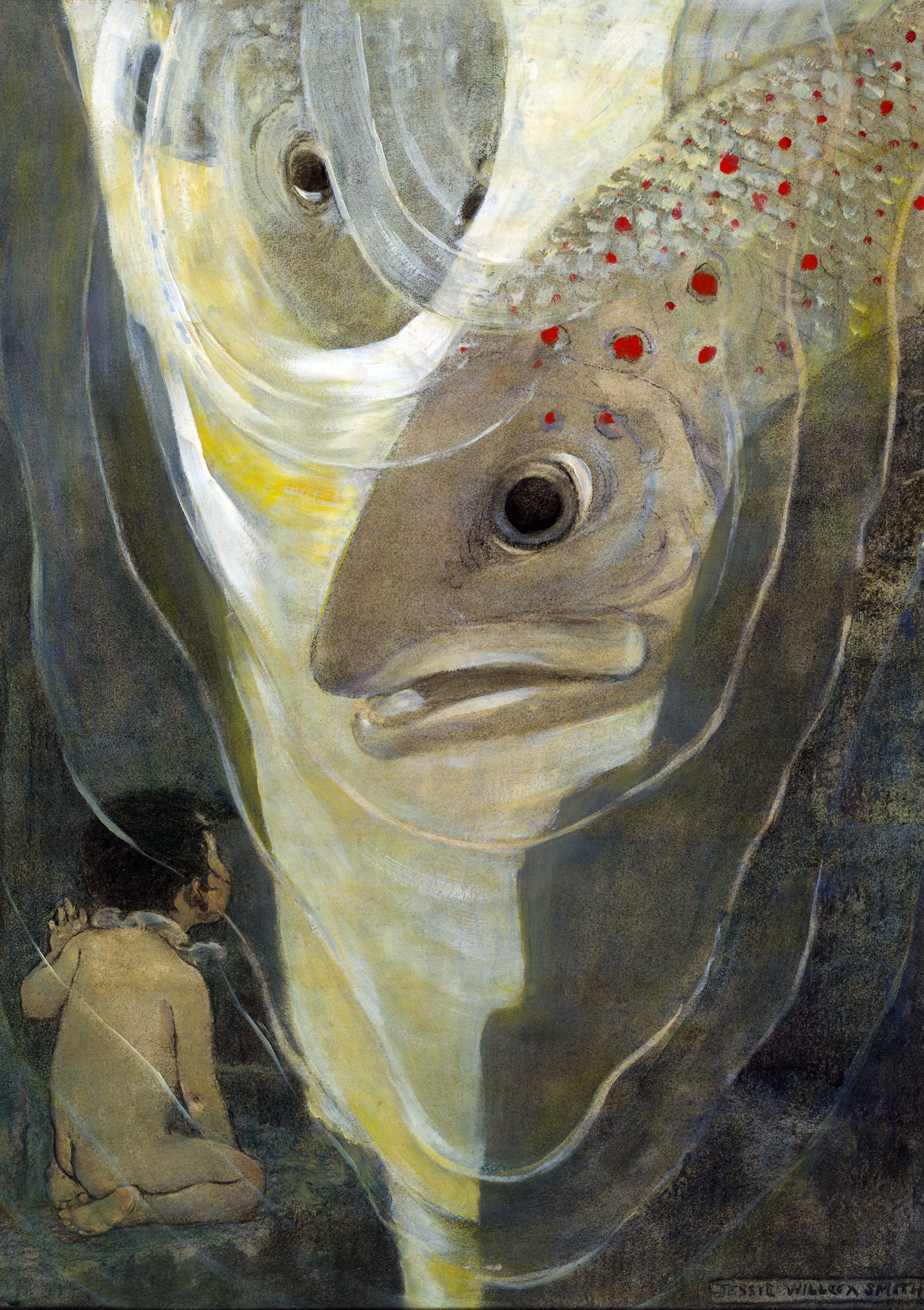 "Oh, don't hurt me! cried Tom. I only want to look at you; you are so handsome" A charcoal, watercolor, and oil painting by Jessie Willcox Smith. Published in The Water Babies by Charles Kingsley. New York : Dodd, Mead & Co., 1916, p. 140.